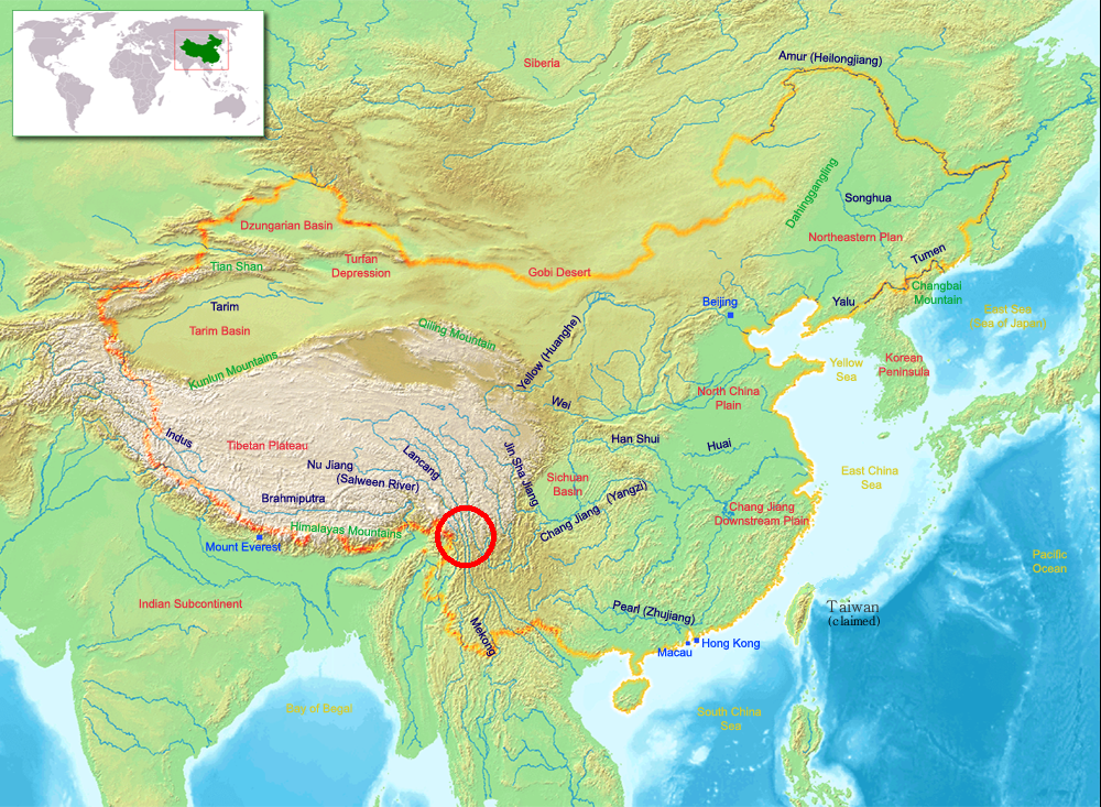 The geography of southeast Asia indicating the Three Parallel Rivers of Yunnan Protected Areas in China — a UNESCO World Heritage Site. The map was drawn by Alan Mak based on a world map in Wikimedia Commonsand adapted by Takeaway